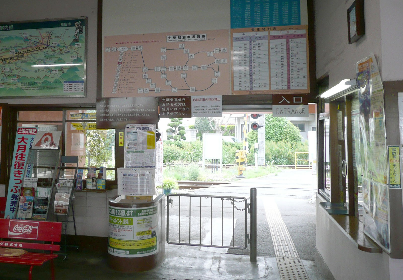 Tsurushi Station ticket gate